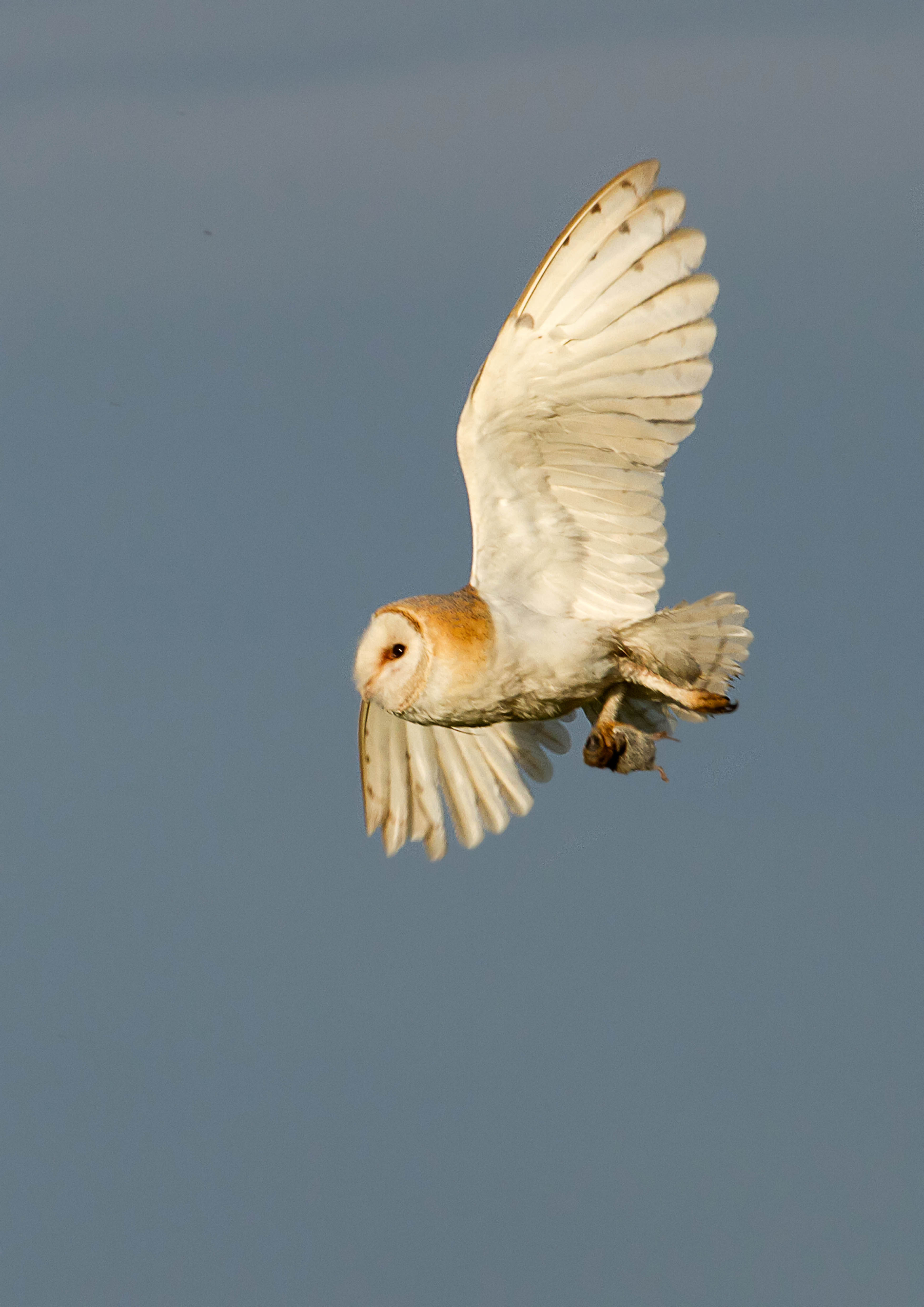 Barn Owl Tyto alba alba with prey. Norfolk, England.